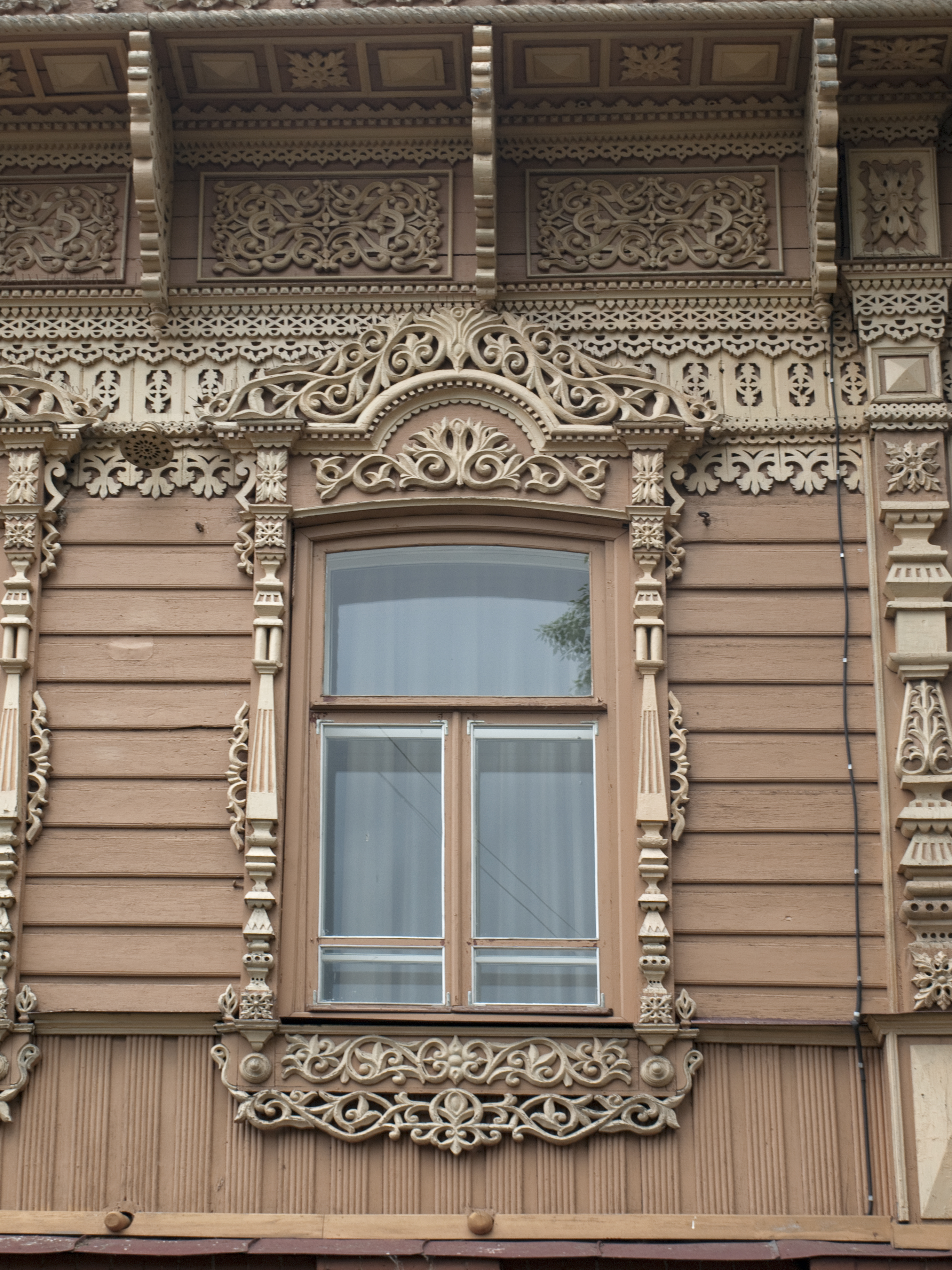 Window and wooden carving, Shishkova Street 10, Tomsk